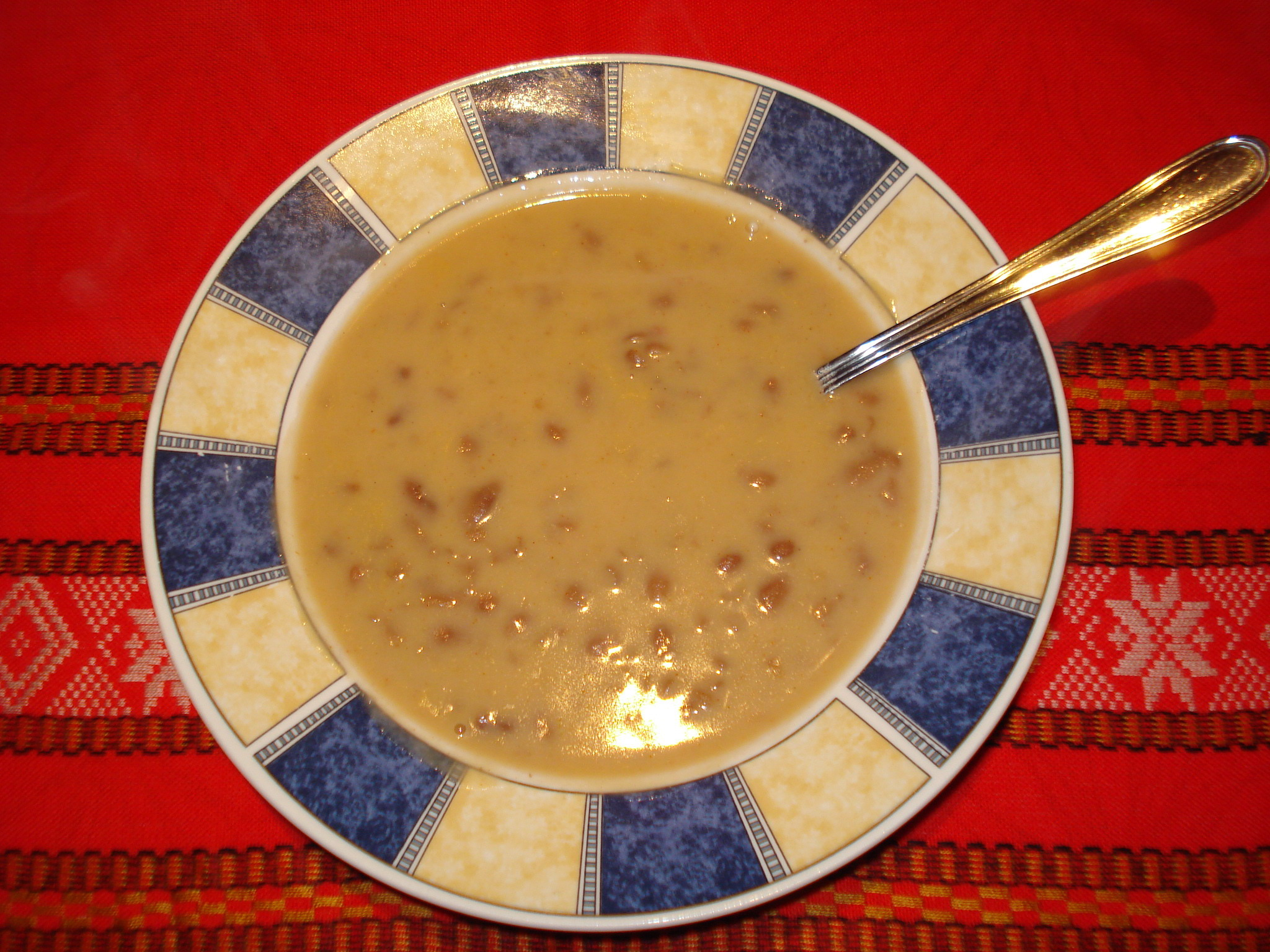 Traditional "pretep" creamy bean soup from Medjimurje County, northern CroatiaHrvatski: Tradicionalna s vrhnjem pretepena grahova juha iz Međimurja, sjeverna Hrvatska